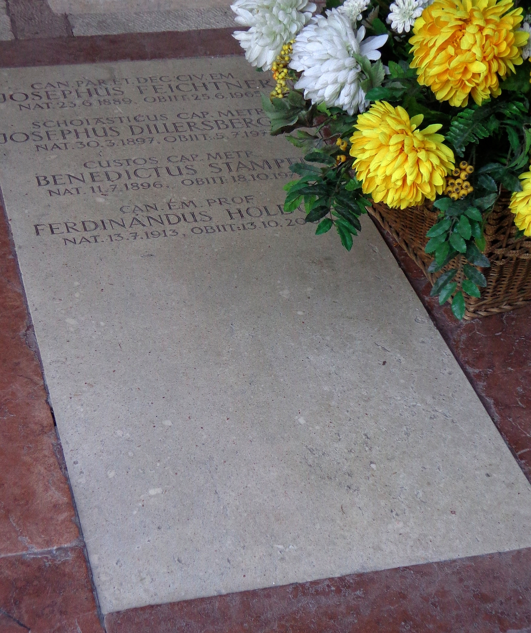 Crypt 31 (Petersfriedhof Salzburg): burial place of the architect of Salzburg Cathedral, Santino Solari, and the member of the Chapter of Salzburg Cathedral